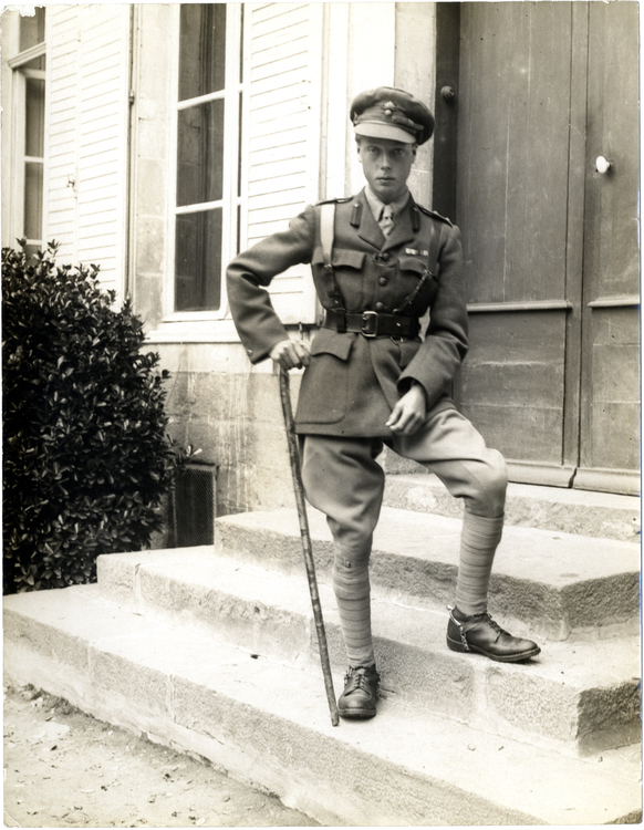 The Prince of Wales at the Front [Merville, France].